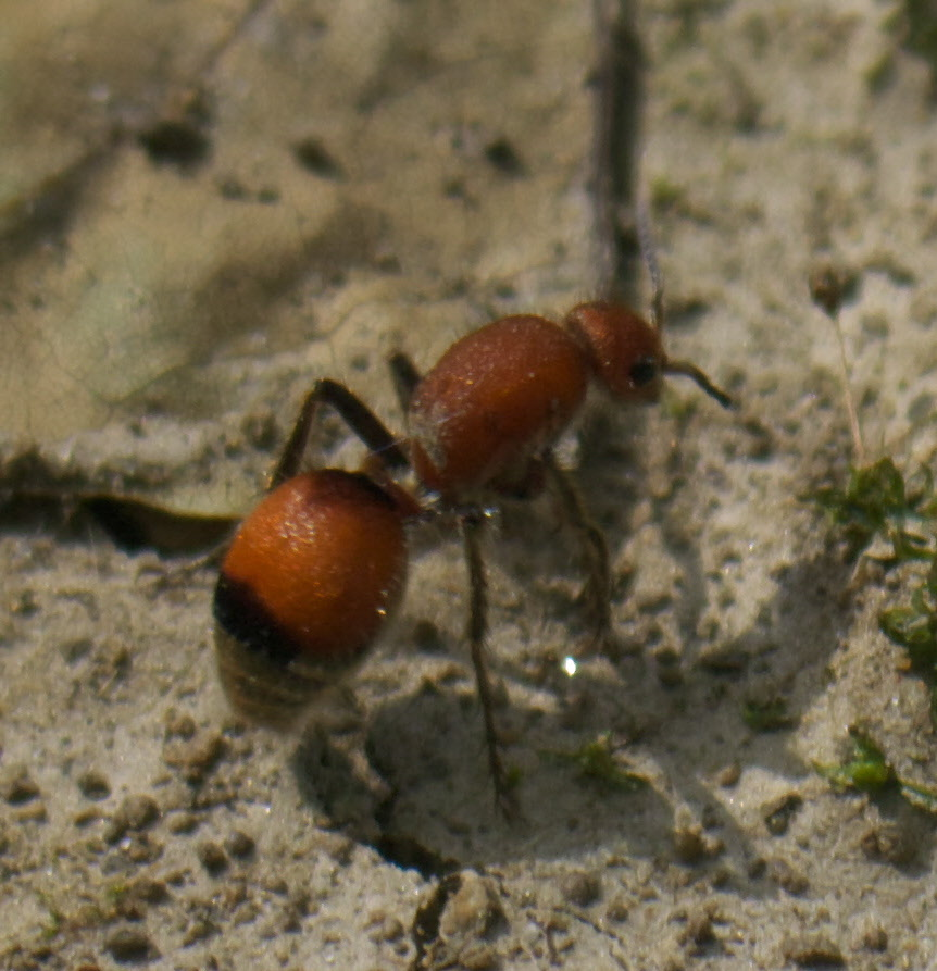 Dasymutilla, Family: Velvet Ants